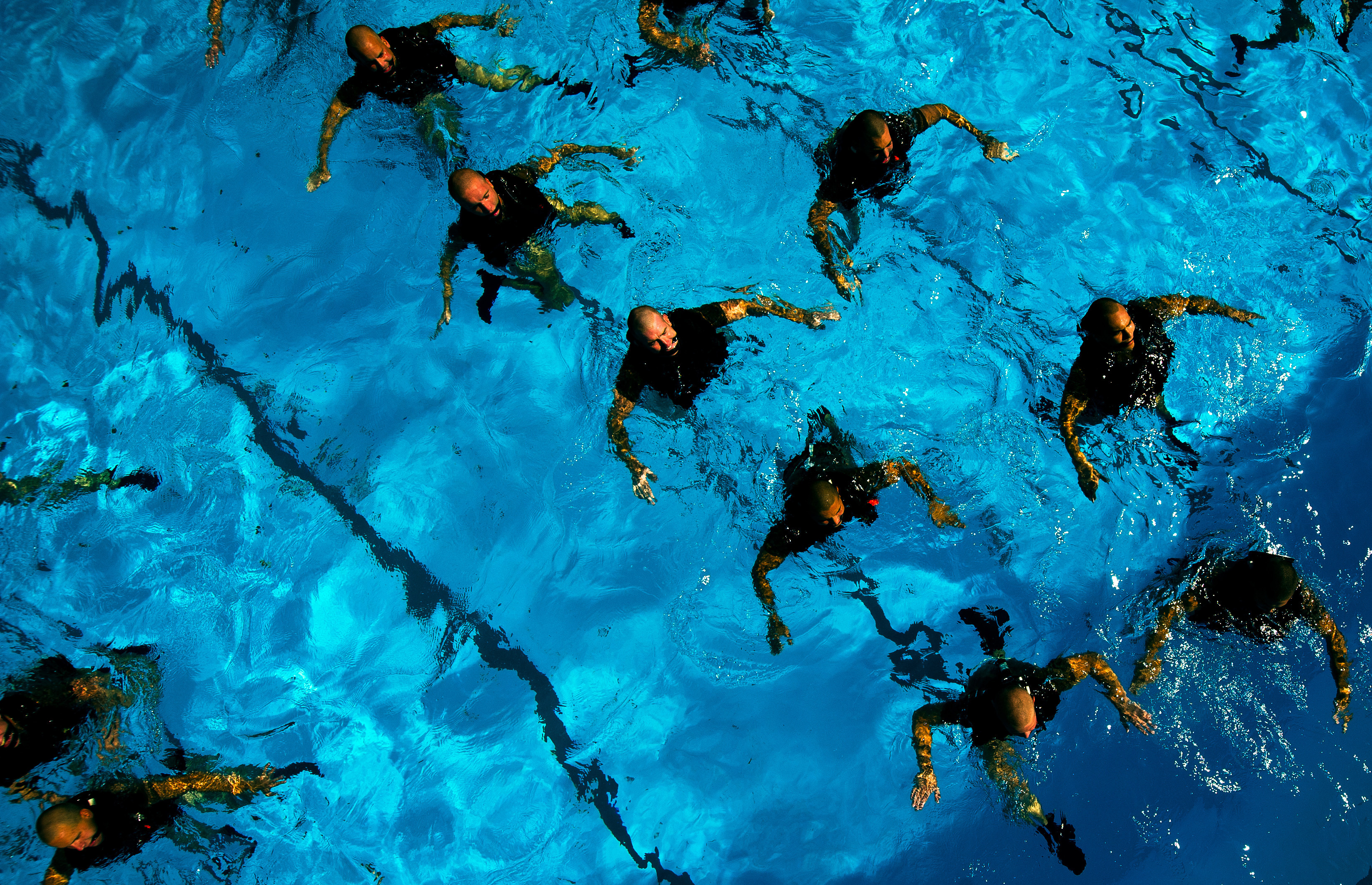 Air Force Pararescue Jumper trainees participate in the water confidence introductory course Aug. 16, at Lackland Air Force Base, Texas. During the course, trainees learn mask and snorkel recovery, buddy breathing, and other techniques. PJ training accomplished at Lackland AFB includes physiological training, obstacle course, marches, dive physics, dive tables, metric manipulations, medical terminology, cardiopulmonary resuscitation, weapons qualifications, PJ history and leadership reaction course.